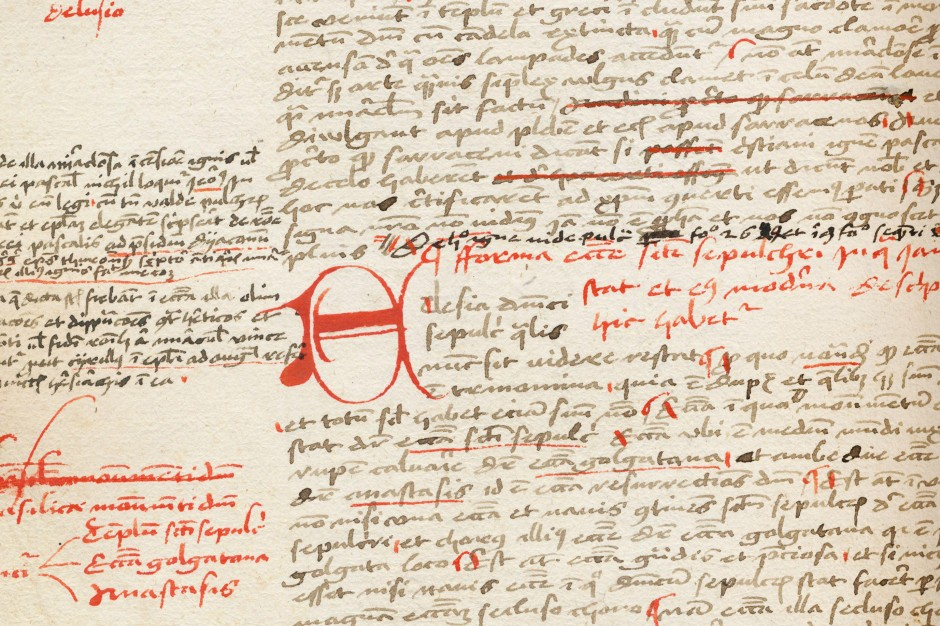 Detail from a page of the autograph manuscript of Felix Fabri's Evagatorium, Ulm, Stadtbibliothek